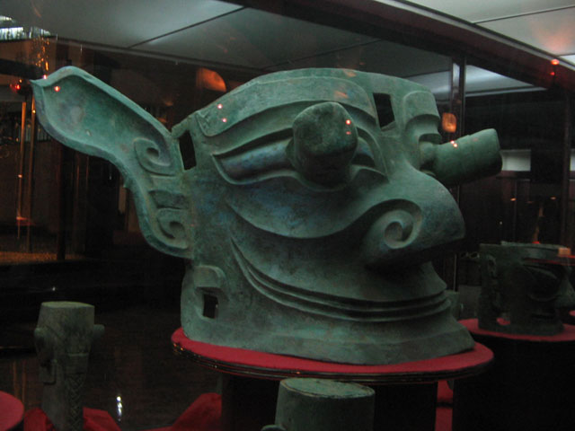 Bronse mask from Sanxingdui (三星堆) culture at Jinsha archeological site in Guanghan city, Qingyang District 40 km from Chengdu in Sichuan province, China.